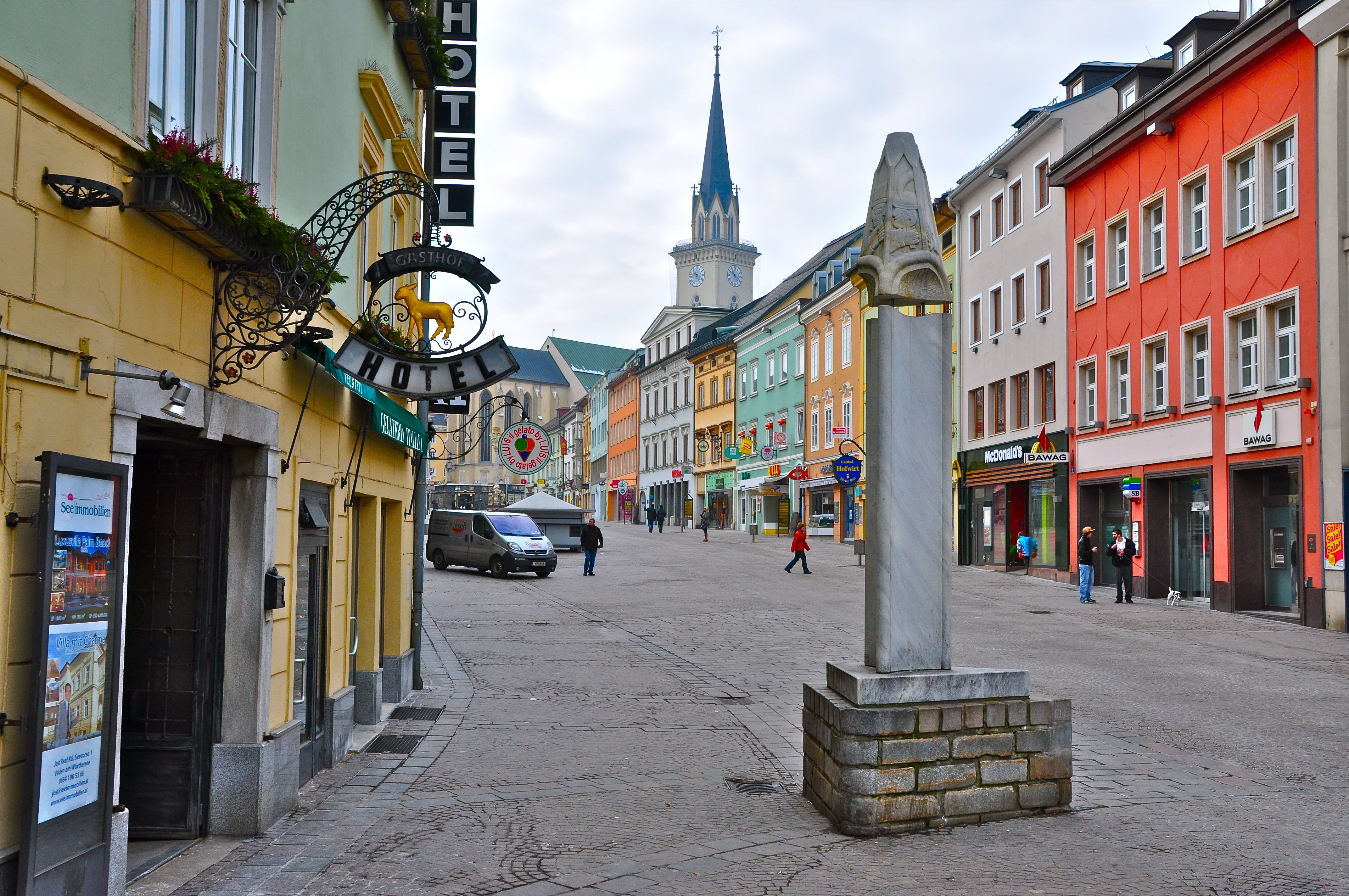 Northeastern view of Hauptplatz (main square) with pillory, statutary city of Villach, Carinthia, Austria, EU